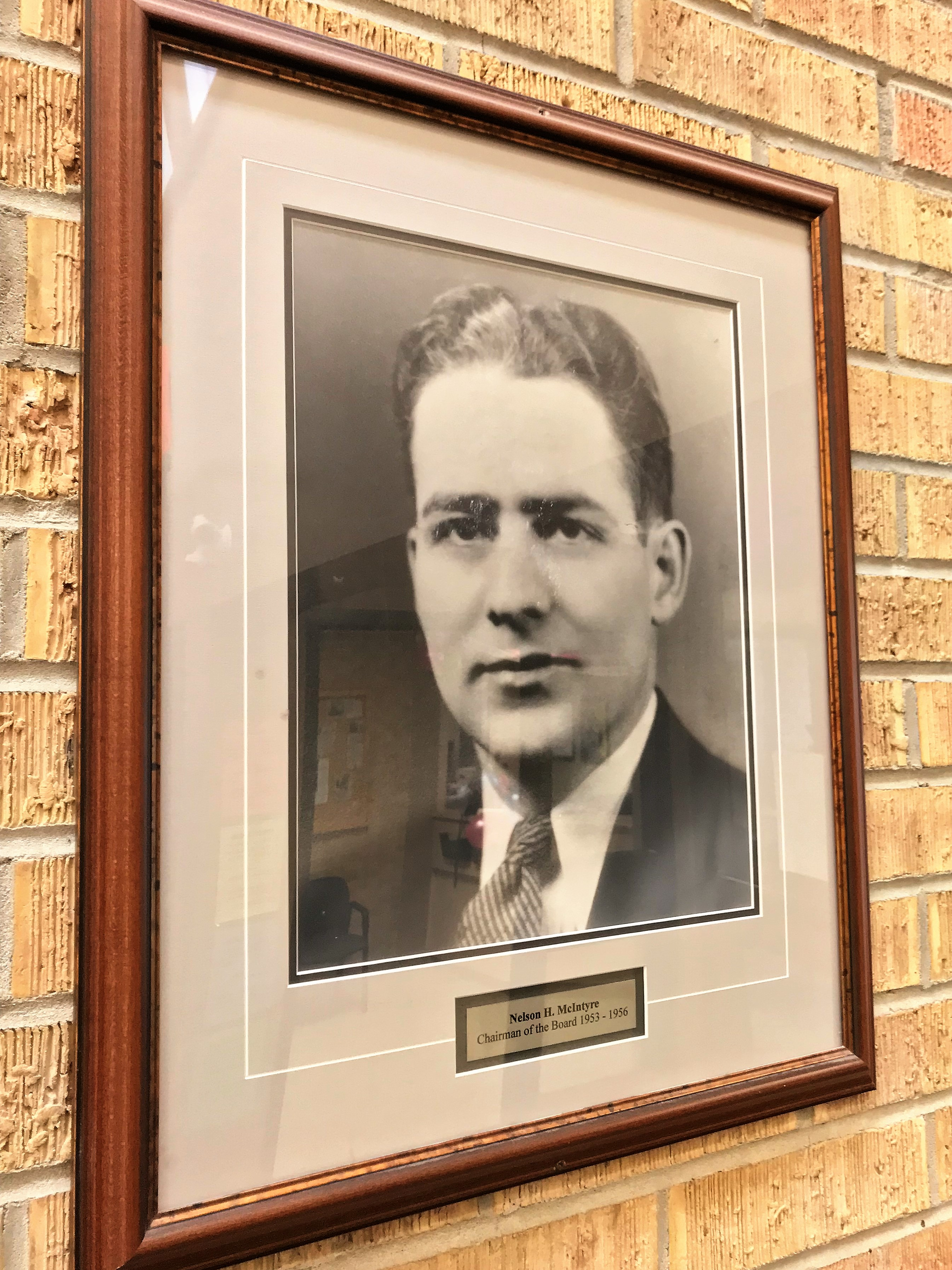 This portrait of Nelson K. McIntyre hangs in the front foyer of the school not only to commemorate a former superintendant, but also to commemorate the school's rich history as a part of the Norwood area of St. Boniface in Winnipeg.